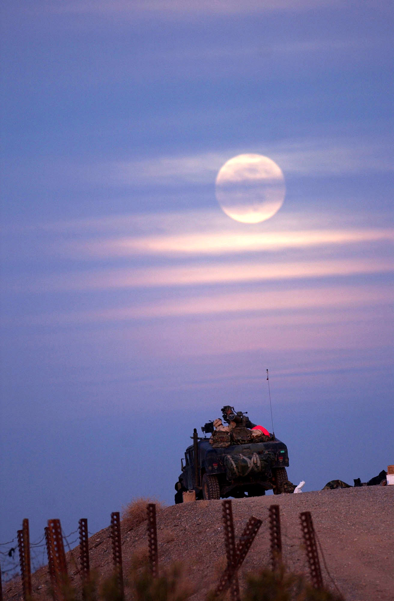 011230-N-2383B-516 KANDAHAR (December 30, 2001) -- Moon sets over a U.S. Marine light armored vehicle (LAV) at a forward operating base in Kandahar, Afghanistan. U.S. Sailors and Marines are in Afghanistan operating in support of Operation Enduring Freedom. U.S. Navy photo by Chief Photographer's Mate Johnny Bivera, Fleet Combat Camera Atlantic (RELEASED).